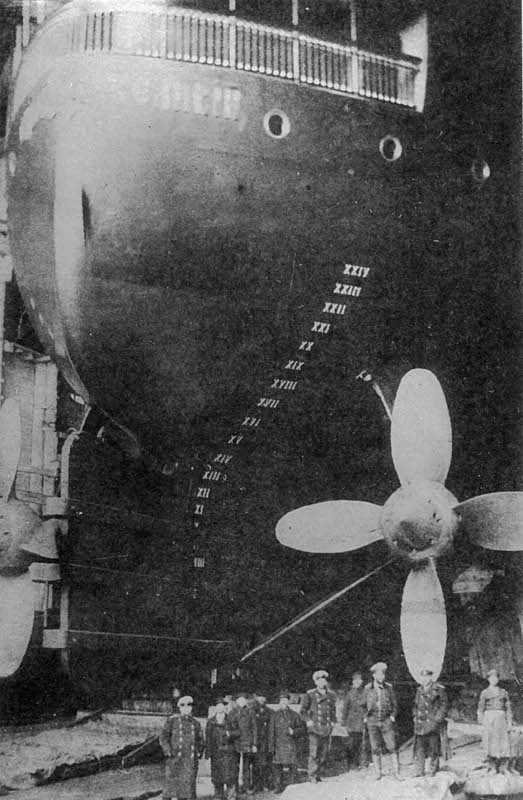 Sisoy Veliky on launch slipway, 1894